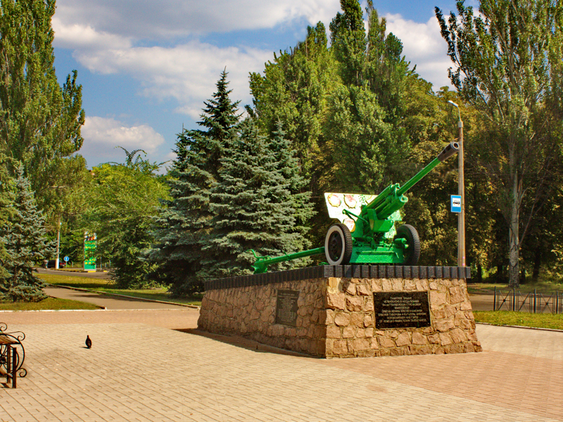 gfhtryu